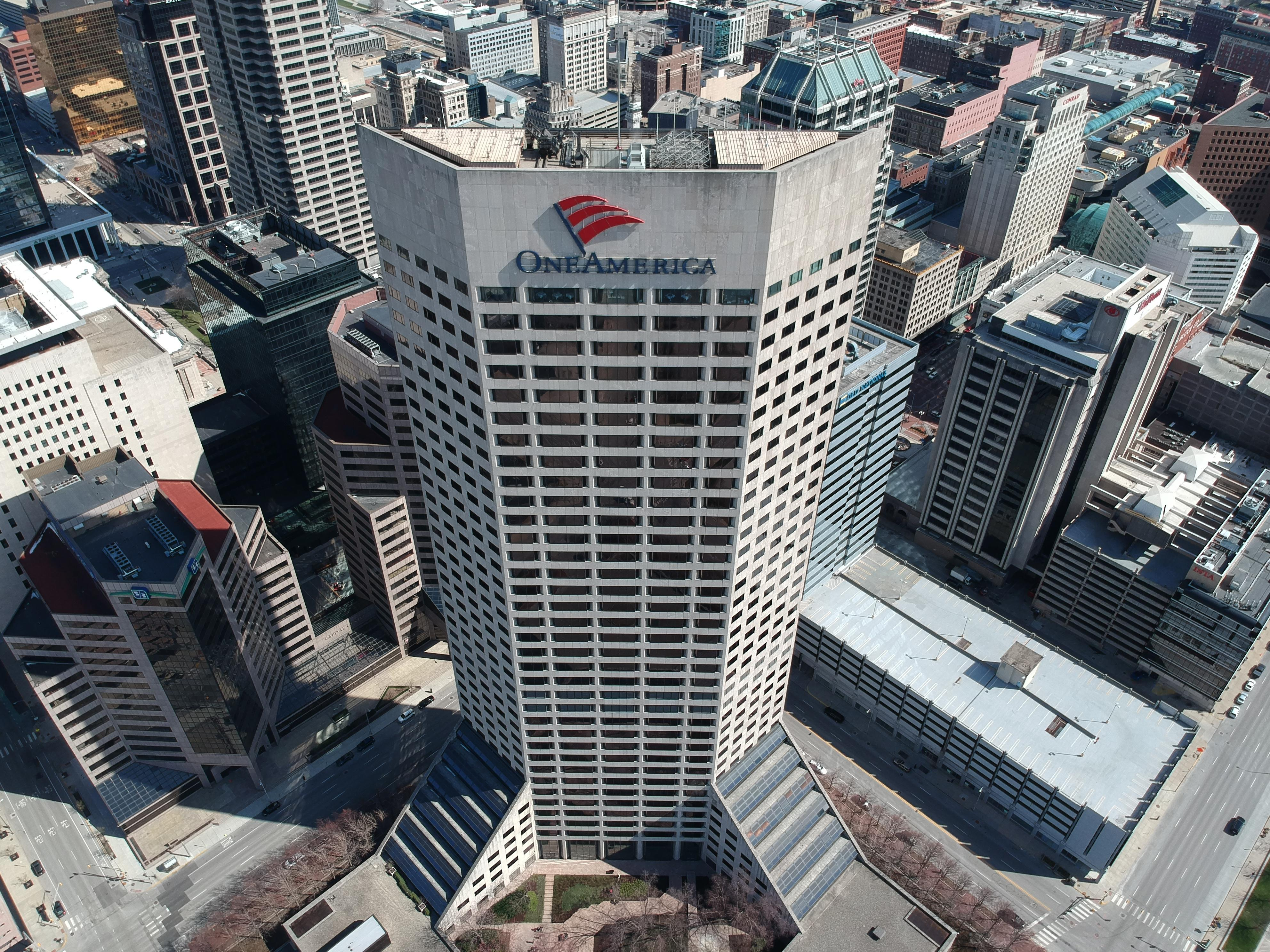 Drone photo of a bank tower in downtown Indianapolis